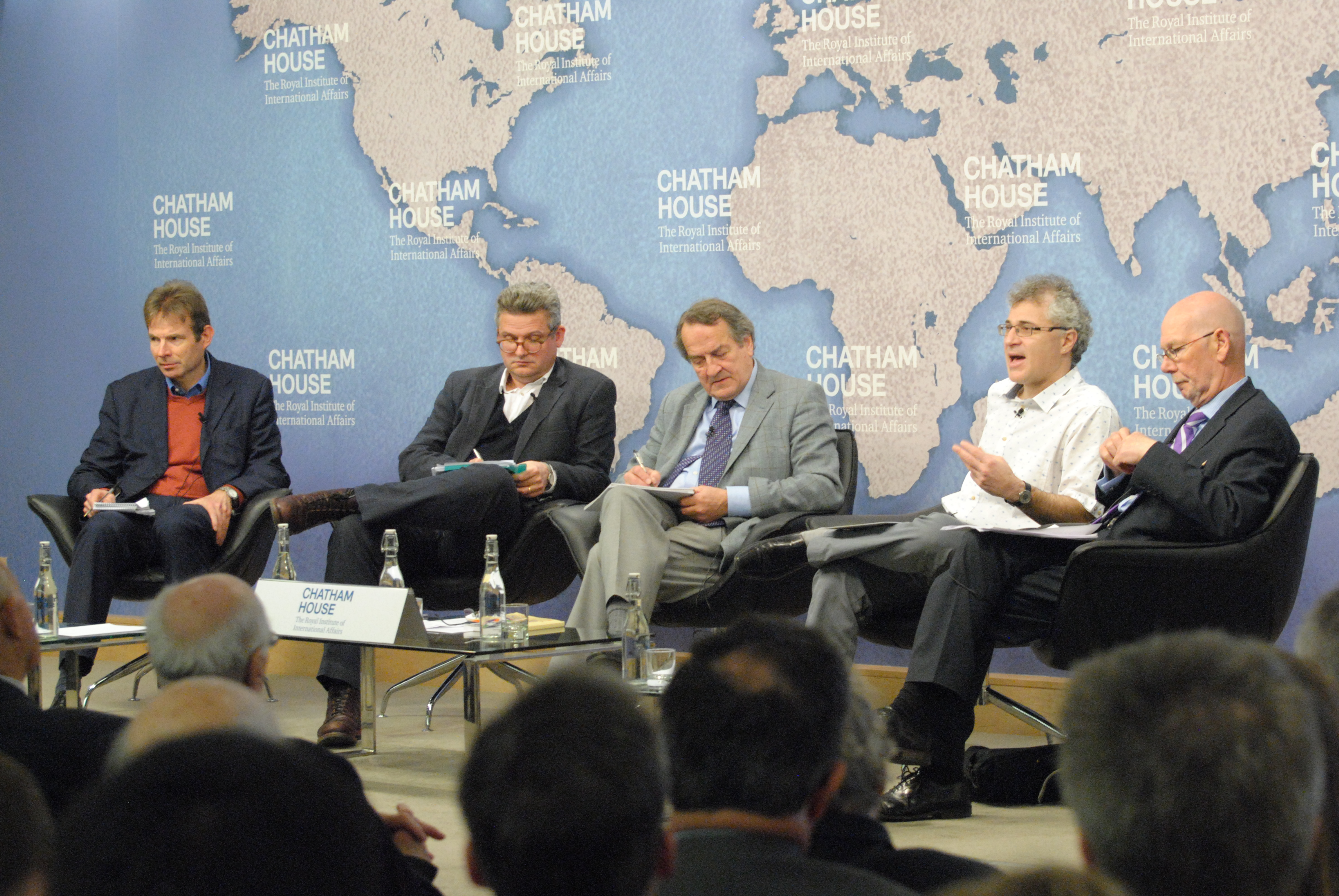 22 April 2015, cht.hm/1DNjyLB Charles Grant, Director, Centre for European Reform Jonathan Portes, Director, National Institute of Economic and Social Research Dáithí O’Ceallaigh, Co-editor, Britain and Europe: the Endgame; Irish Ambassador to the UK (2001-07) (extreme right) Bruno Waterfield, Brussels Correspondent, The Times Chair: Quentin Peel, Mercator Senior Fellow, Europe Programme, Chatham House